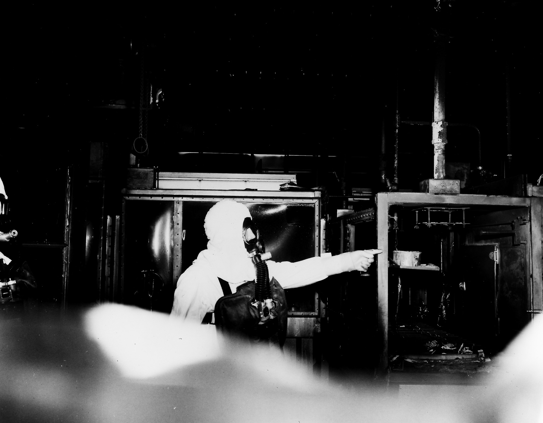 A person in a radiation exposure suit and breathing mask points to the glove box where a fire started. Rocky Flats, 1957, building 771.